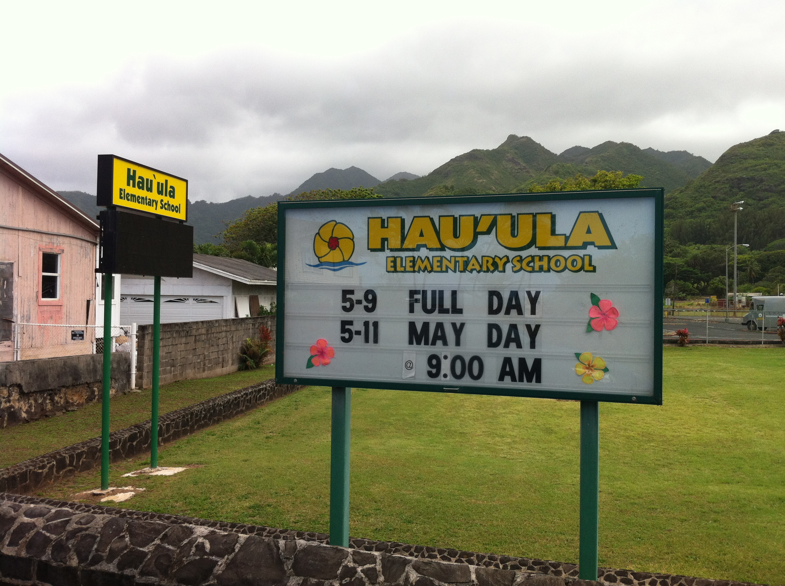 Hauula Elementary, Oahu Hawaii